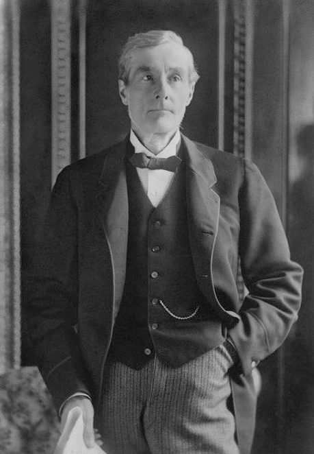 Hugh Lupus Grosvenor, 1st Duke of Westminster (1825-1899), Liberal politician, landowner and racehorse owner